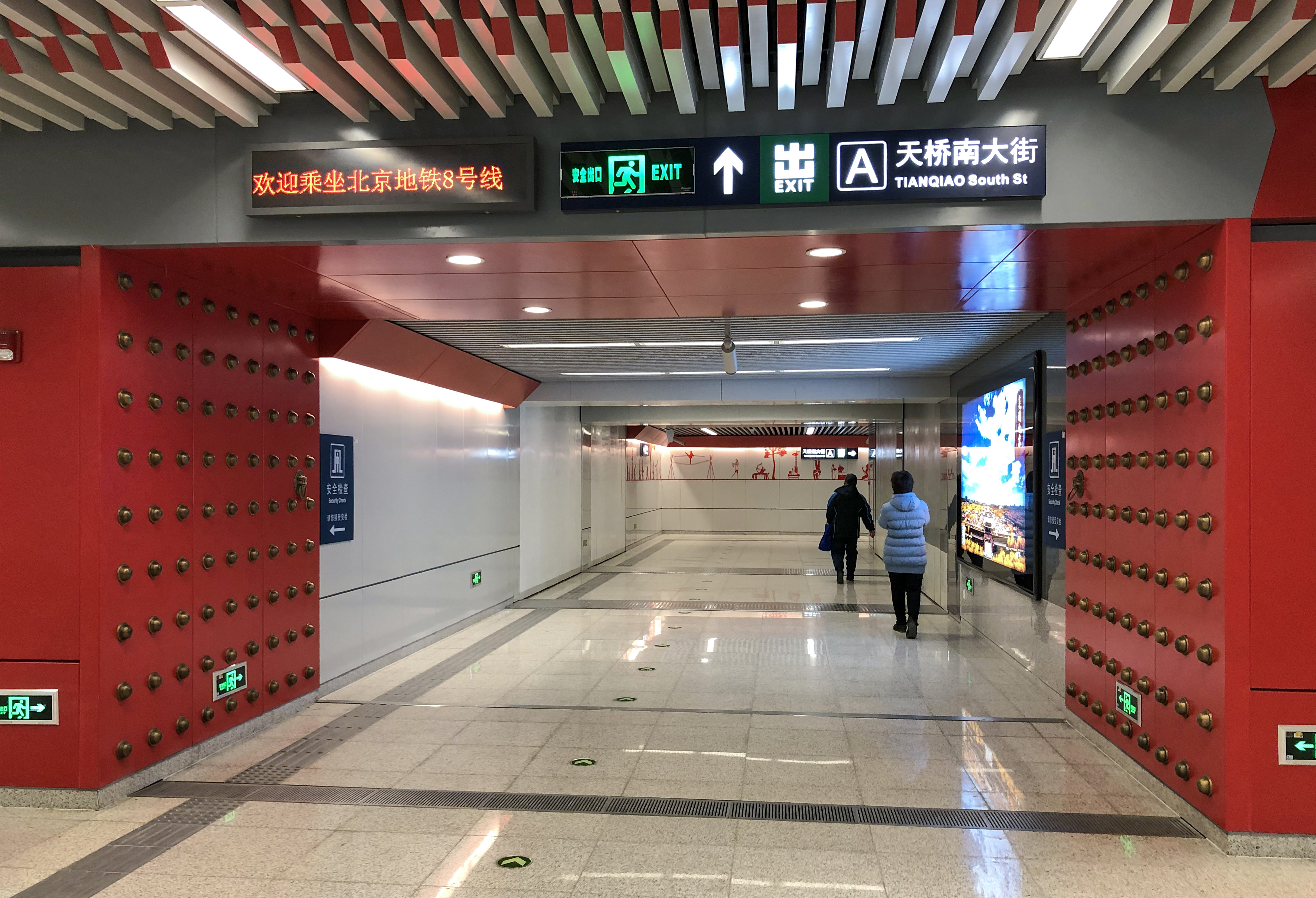 This is an open-air exit.